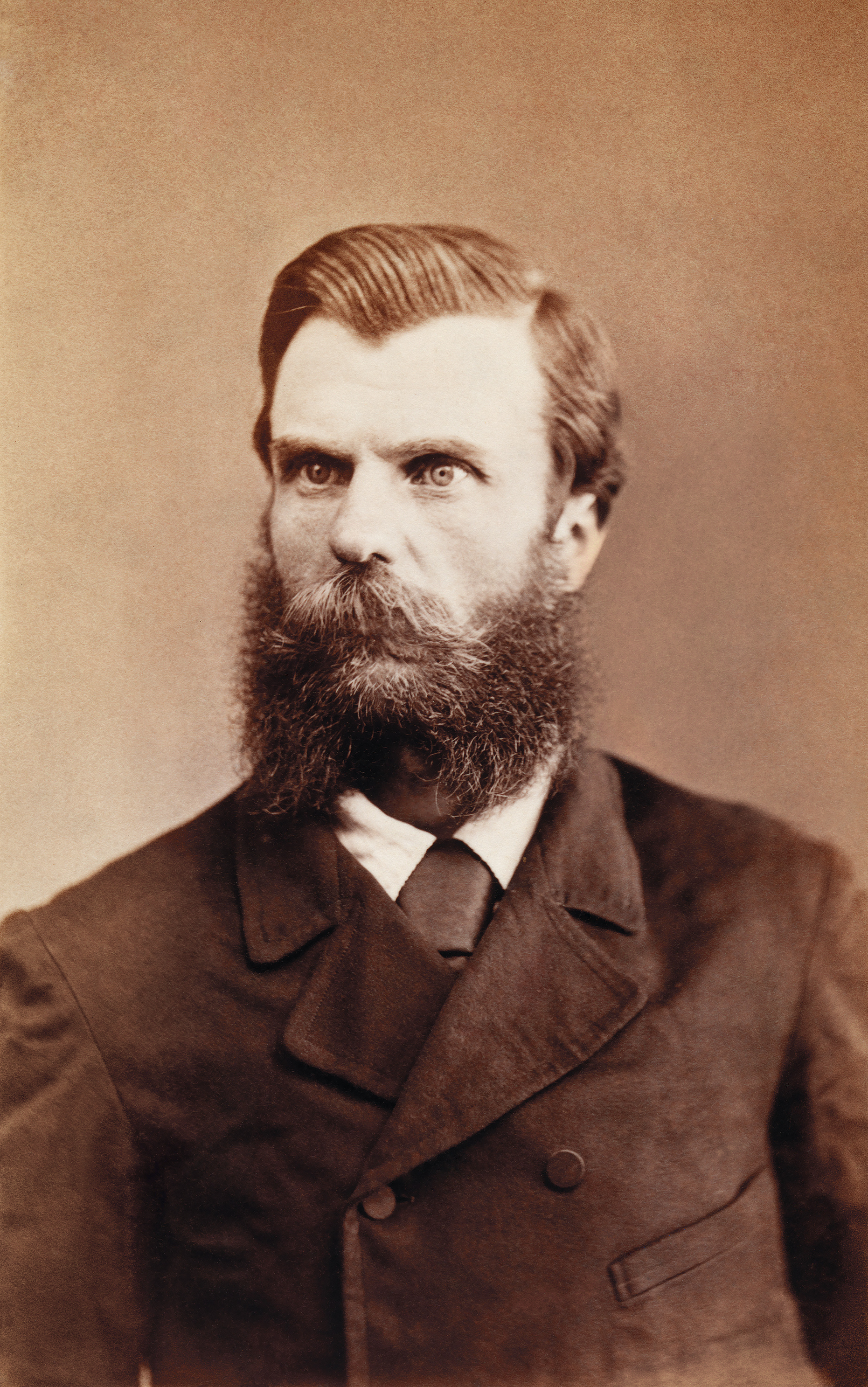 albumen silver carte de visite of Australian bushranger Captain Moonlite.